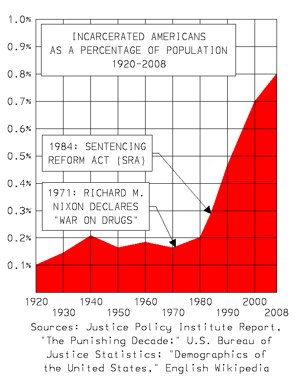 Graph demonstrating the incarcerated population relative to the general population.